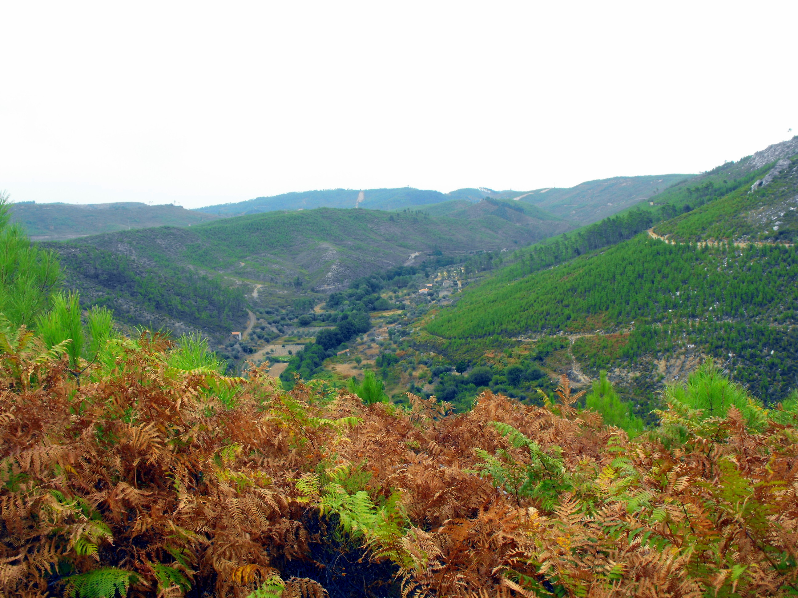 Village of Aziral, near Caratão, Mação. This photo is ALSO in my panoramio account so please do not remove it.